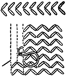 Arrowhead stitch, from Samplers and Stitches, a handbook of the embroiderer's art by Mrs Archibald Christie, London 1920/New York 1921